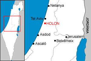 Localization of Holon within Israel.